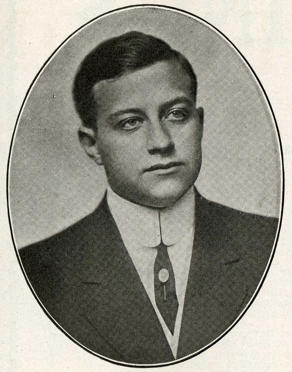 Photo of American tenor Paul Althouse from an advertisement in Musical America.